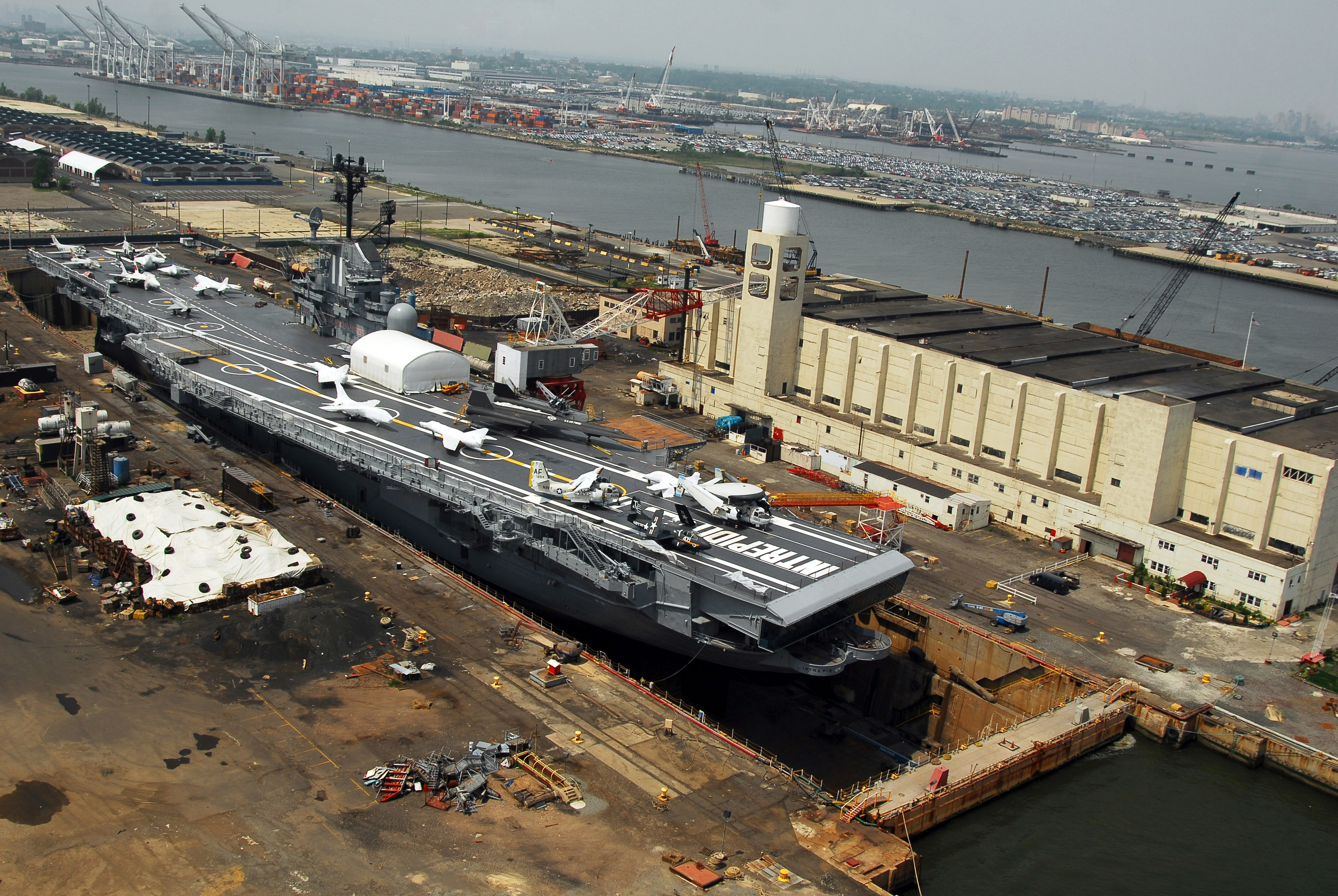 BAYONNE, N.J. (May 28, 2007) - Decommissioned aircraft carrier Intrepid (CV 11) sits at Bayonne Dry Dock and Repair Corp. to have her hull water blasted, primed and repainted. Intrepid is scheduled to return to a brand-new, Pier 86 on Manhattan's west side in the fall of 2008. U.S. Navy photo by Mass Communication Specialist 3rd Class Kenneth R. Hendrix (RELEASED)